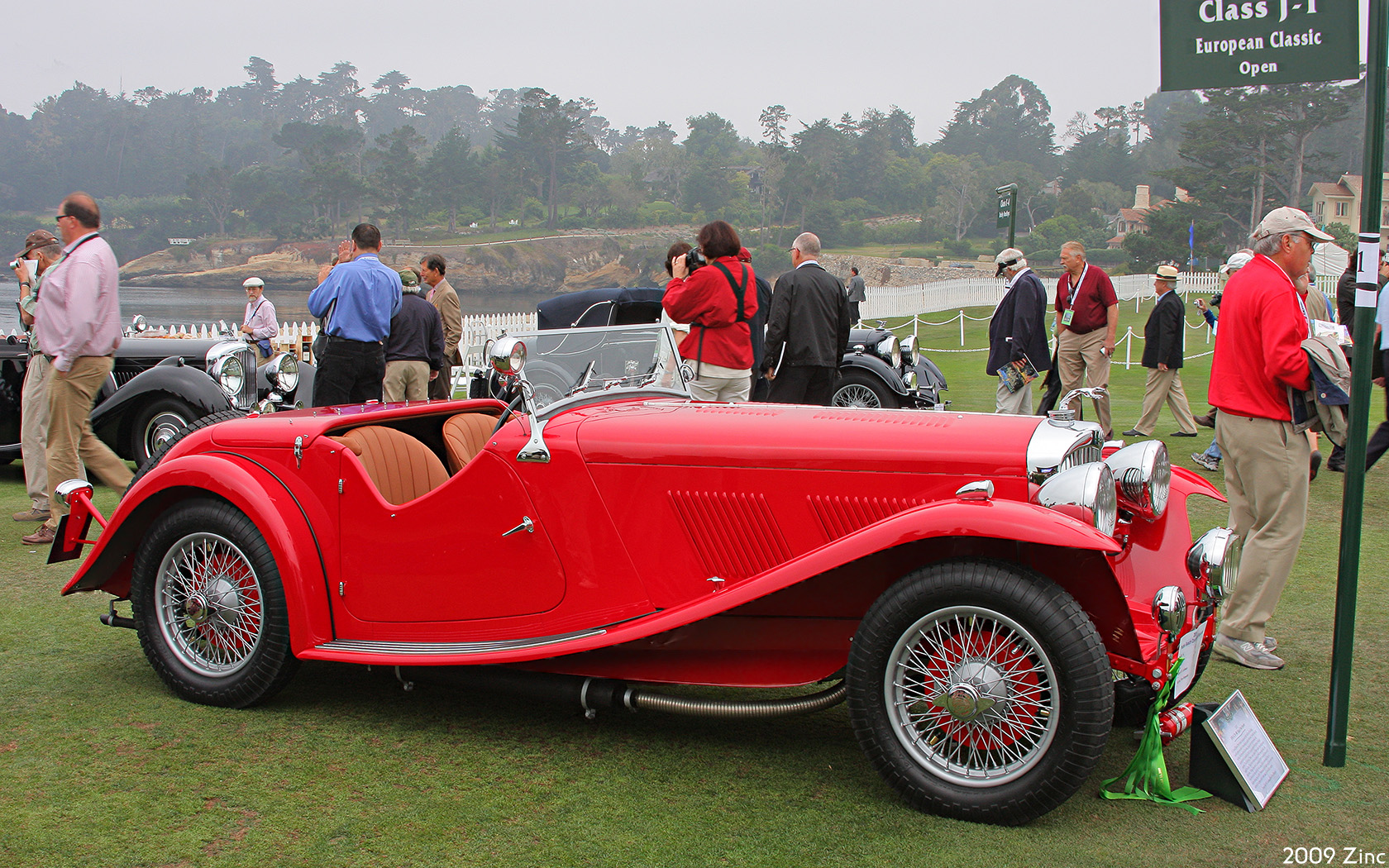 1939 AC 16-80 March 2 Seat Sport Pebble Beach Concours d'Elegance, Aug 16, 2009